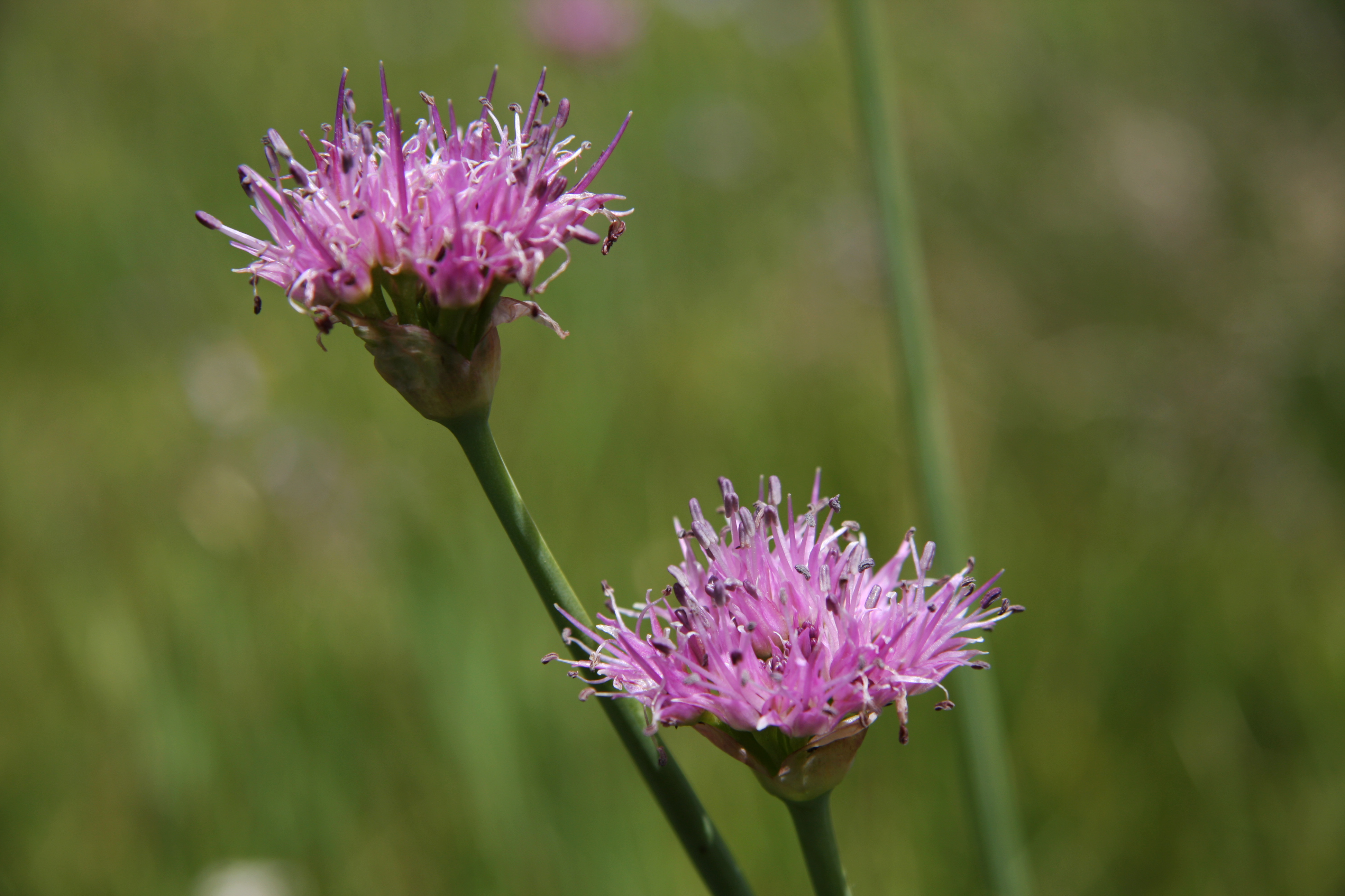 Allium validum — Swamp onion, closeup of flower. Meadow above Purple Lake, John Muir Wilderness, Sierra Nevada mountains, California.